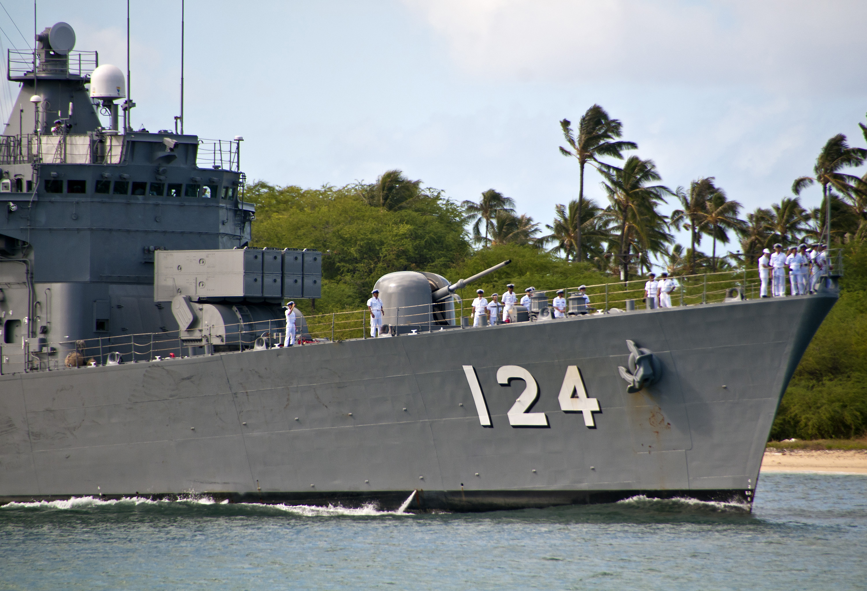 PEARL HARBOR (Oct. 10, 2011) The Japan Maritime Self-Defense Force Hatsuyuki-class destroyer JS Mineyuki (DD-124) arrives at Joint Base Pearl Harbor-Hickam during a scheduled port visit. (U.S. Navy photo by Mass Communication Specialist 2nd Class Daniel Barker/Released)